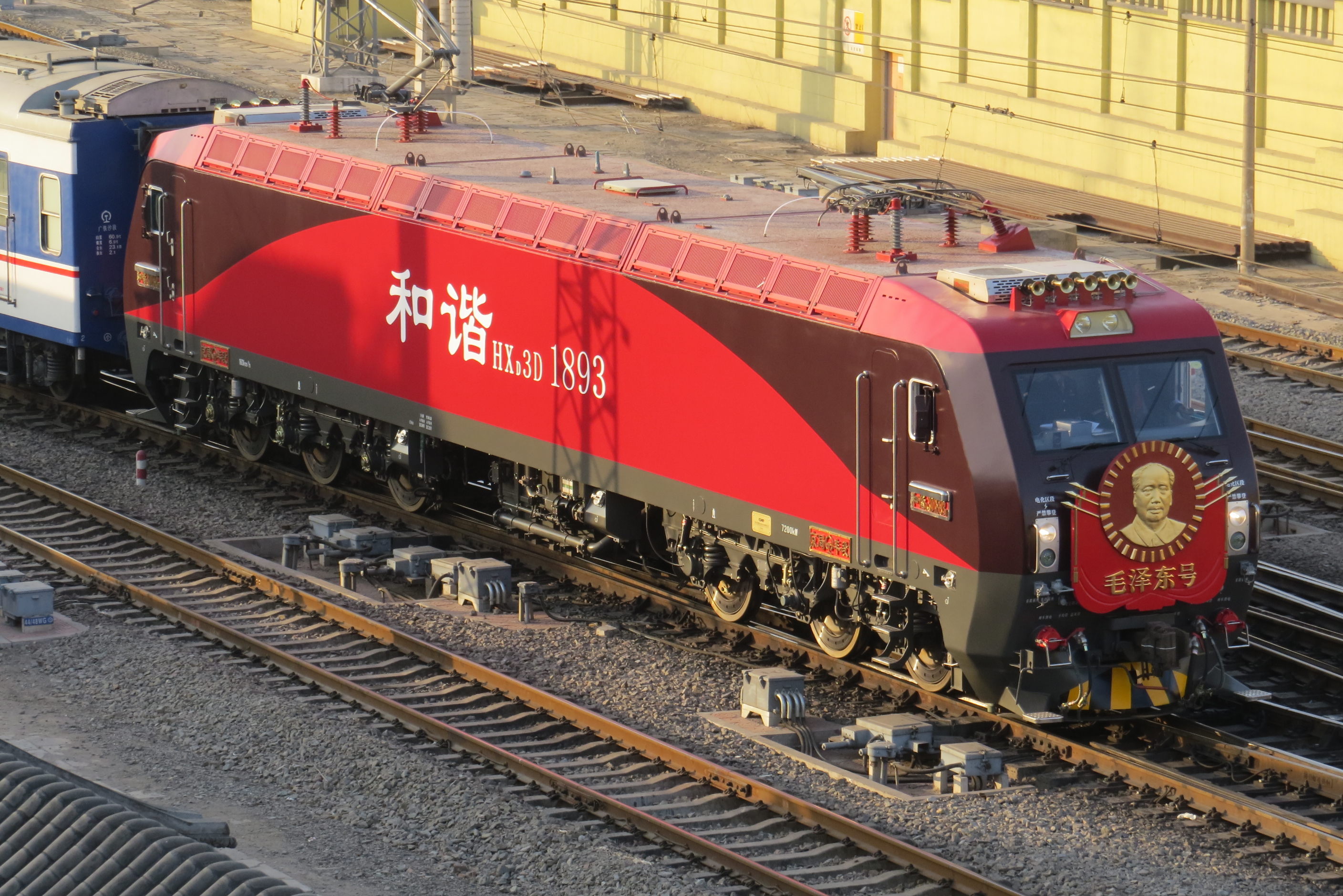 Yes, the Mao Zedong locomotive is here! HXD3D-1893 (registered after Chairman Mao's year of birth) pulling T1 Express Train out of Beijing Railway Station, bounding for Changsha.